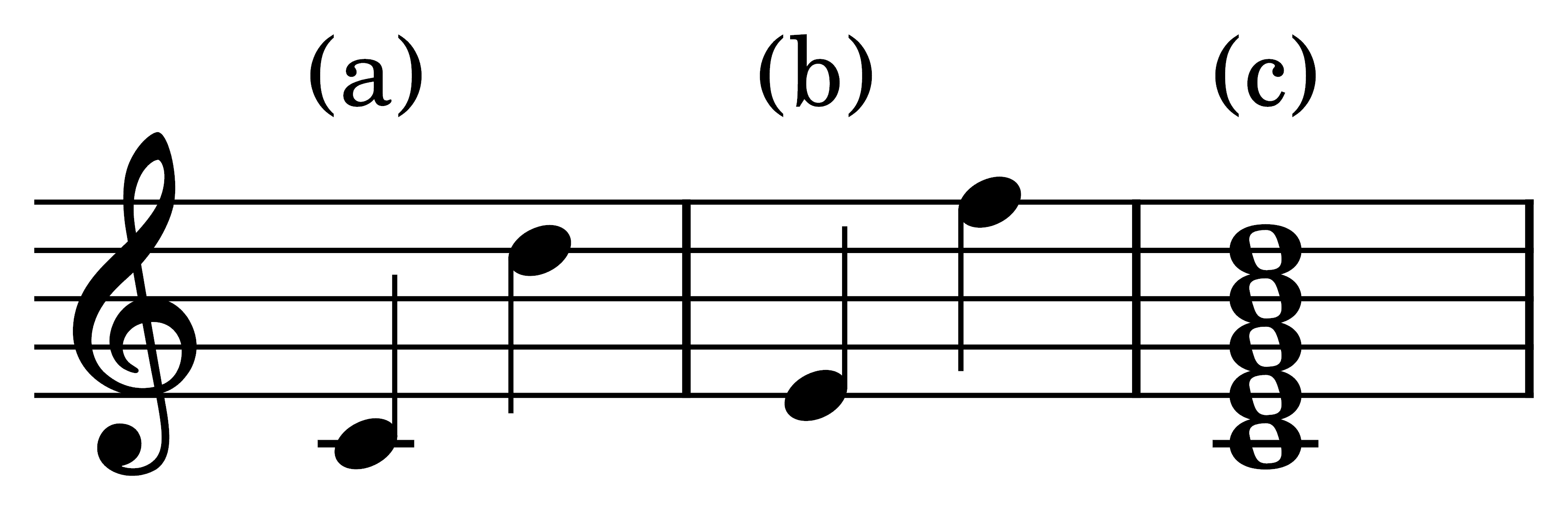 Major ninth, minor ninth, ninth chord.